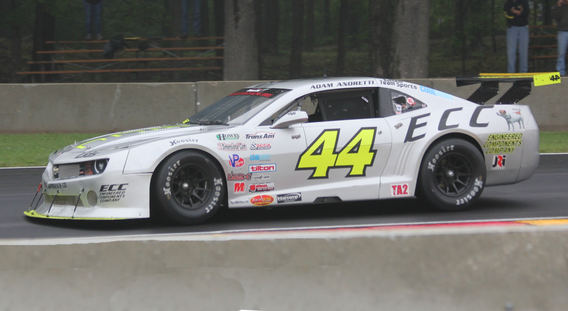 The SCCA Trans Am series car of Adam Andretti at the Next Dimension 100 race at Road America.